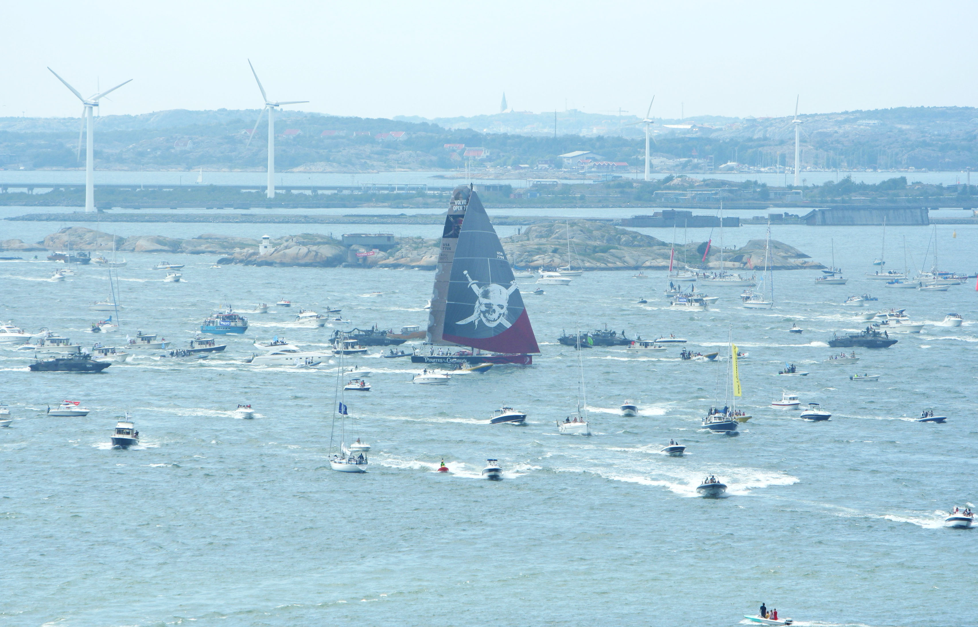 Picture of the VO70 boat "Pirates of the Caribbean" entering Gothenburg harbour at the end of the last leg of Volvo Ocean Race 2005/2006.